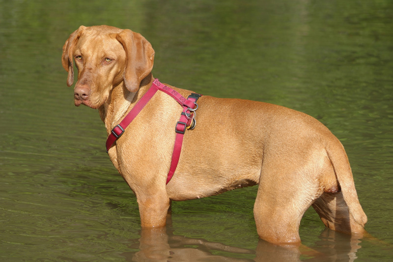 A one year old Vizsla "Rosie" who loves to play in the water.